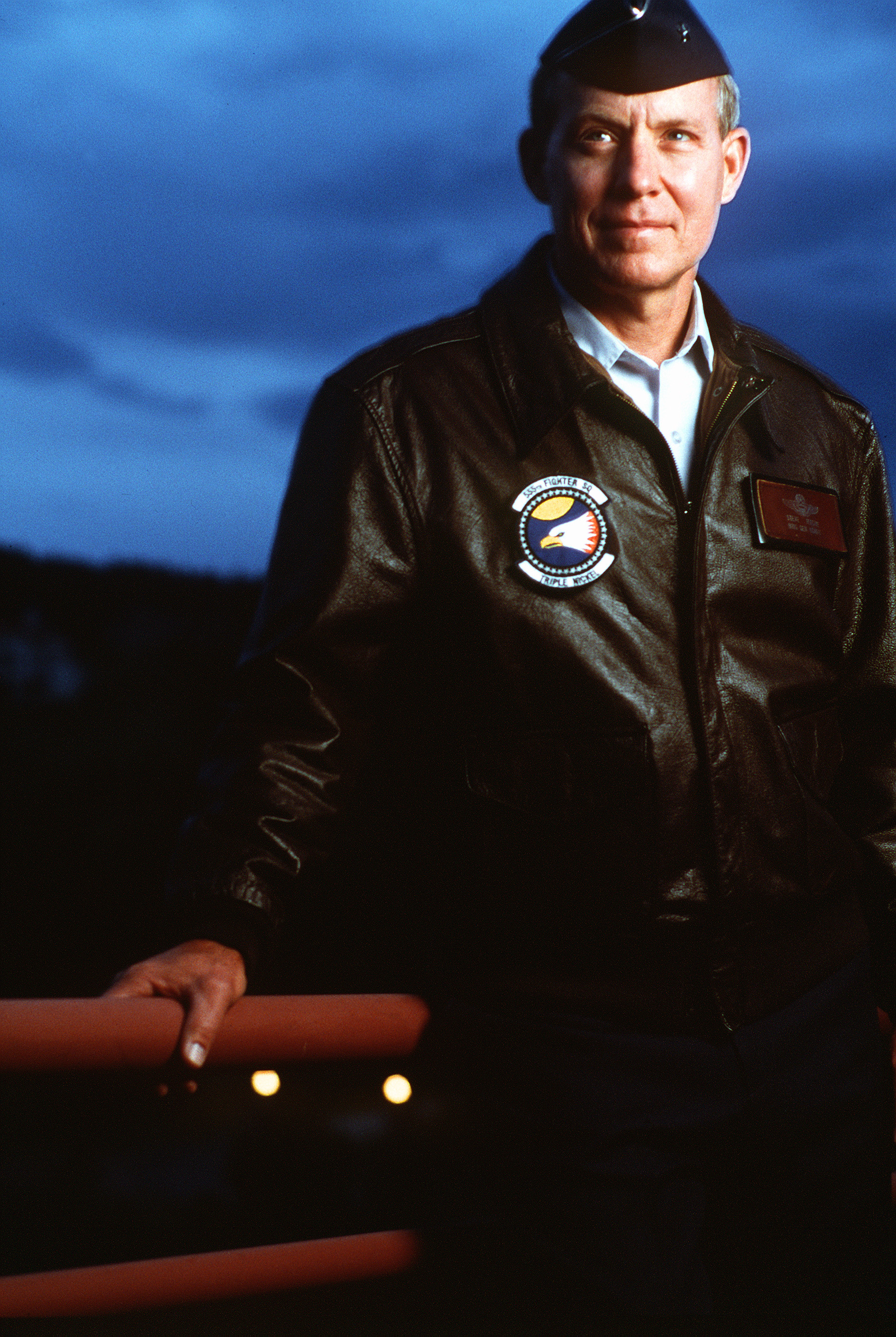 Brig. Gen. Steve Ritchie, dressed in his leather jacket, poses for an informal portrait. He is the mobilization assistant to the commander of Air Force Recruiting Service. He survived two combat tours flying 195 missions during the Vietnam War and is the only American Air Force F-4 Phantom ace pilot with five MiG-21 shoot down victories. Brig Gen. Ritchie served as an instructor at the Air Force's "top gun" Fighter Weapons School making changes in the way our best fighter pilots were taught the knowledge he learned in the war. Location: RANDOLPH AIR FORCE BASE, TEXAS (TX) UNITED STATES OF AMERICA (USA)